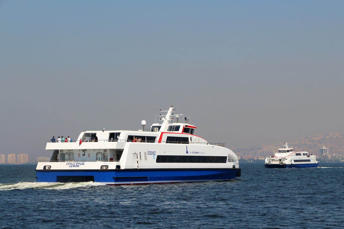 Ferry Dokuz Eylül in Izmir, Turkey